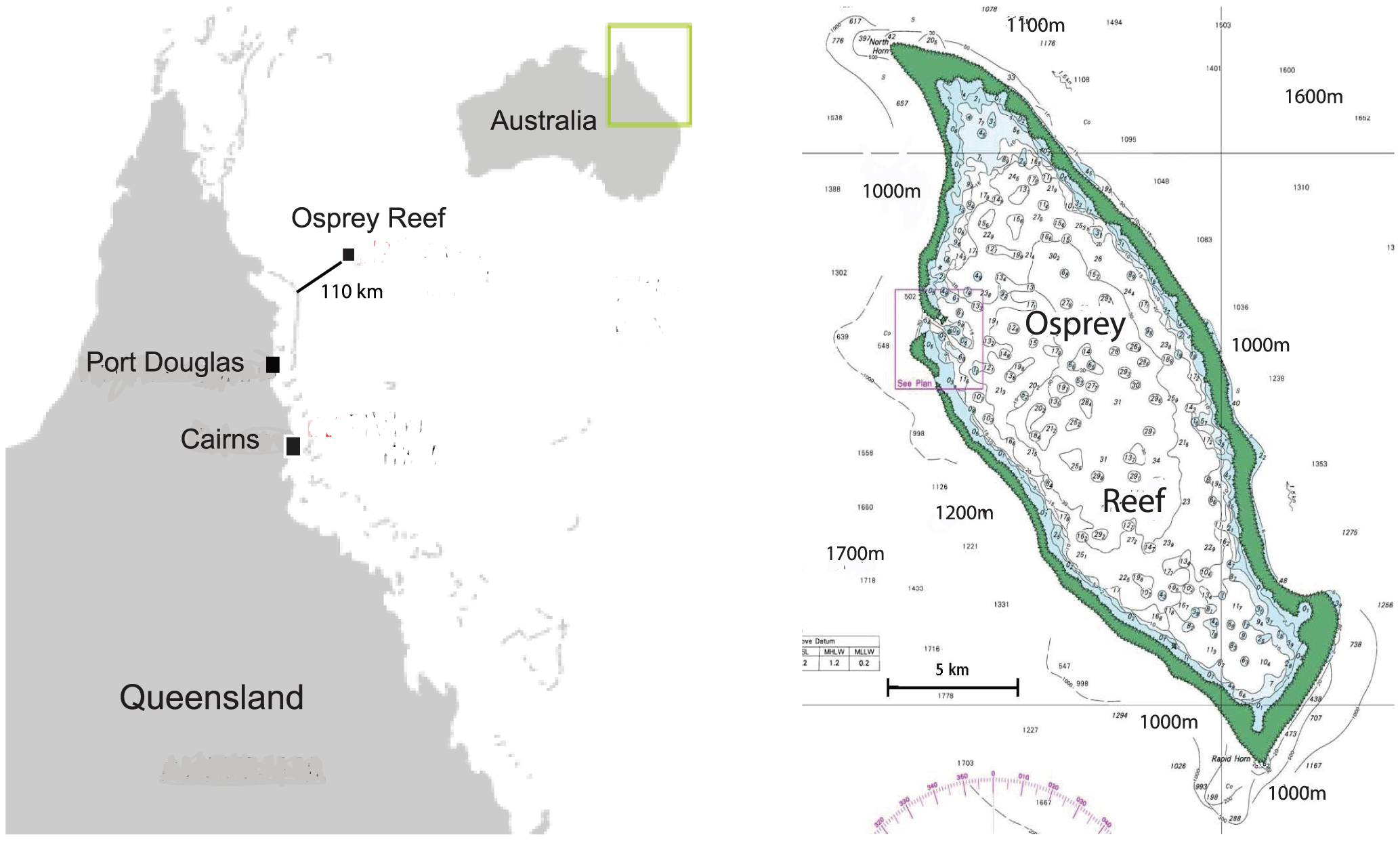 Original caption: "Location map of Osprey Reef, Coral Sea, Australia. Osprey Reef is located 100 km from the outer edge of the northern Great Barrier Reef, rising from around 2000 m depths to just below the surface in an almost vertical reef wall."